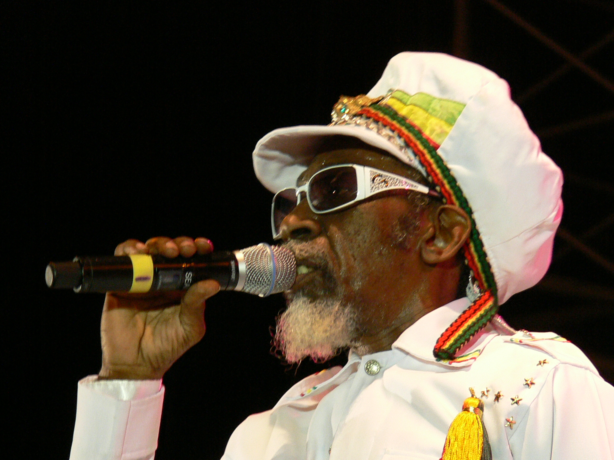 Bunny Wailer performs at the 2008 Smile Jamaica Concert